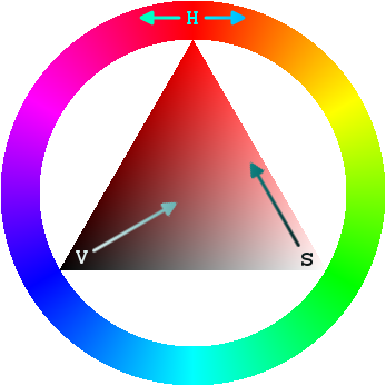 HSV diagram for wikipedia HSV color model page.